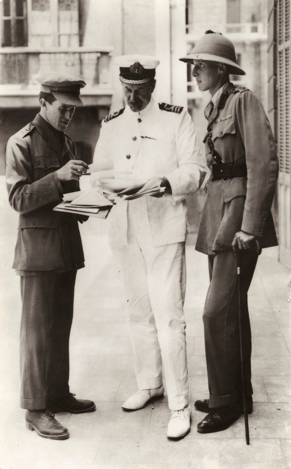 Lieutenant-Colonel Thomas Edward Lawrence (1888 - 1935, left); D.G. Hogarth (1862 - 1927) and Lieutenant-Colonel Dawnay, at the Arab Bureau of Britain's Foreign Office, Cairo, May 1918.